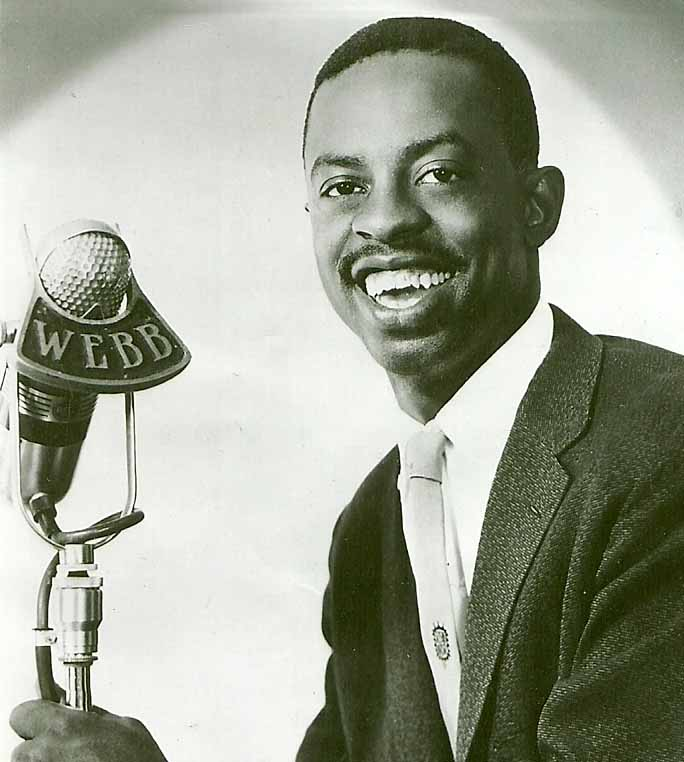 Ron's first radio announcing job in his hometown, Baltimore, MD